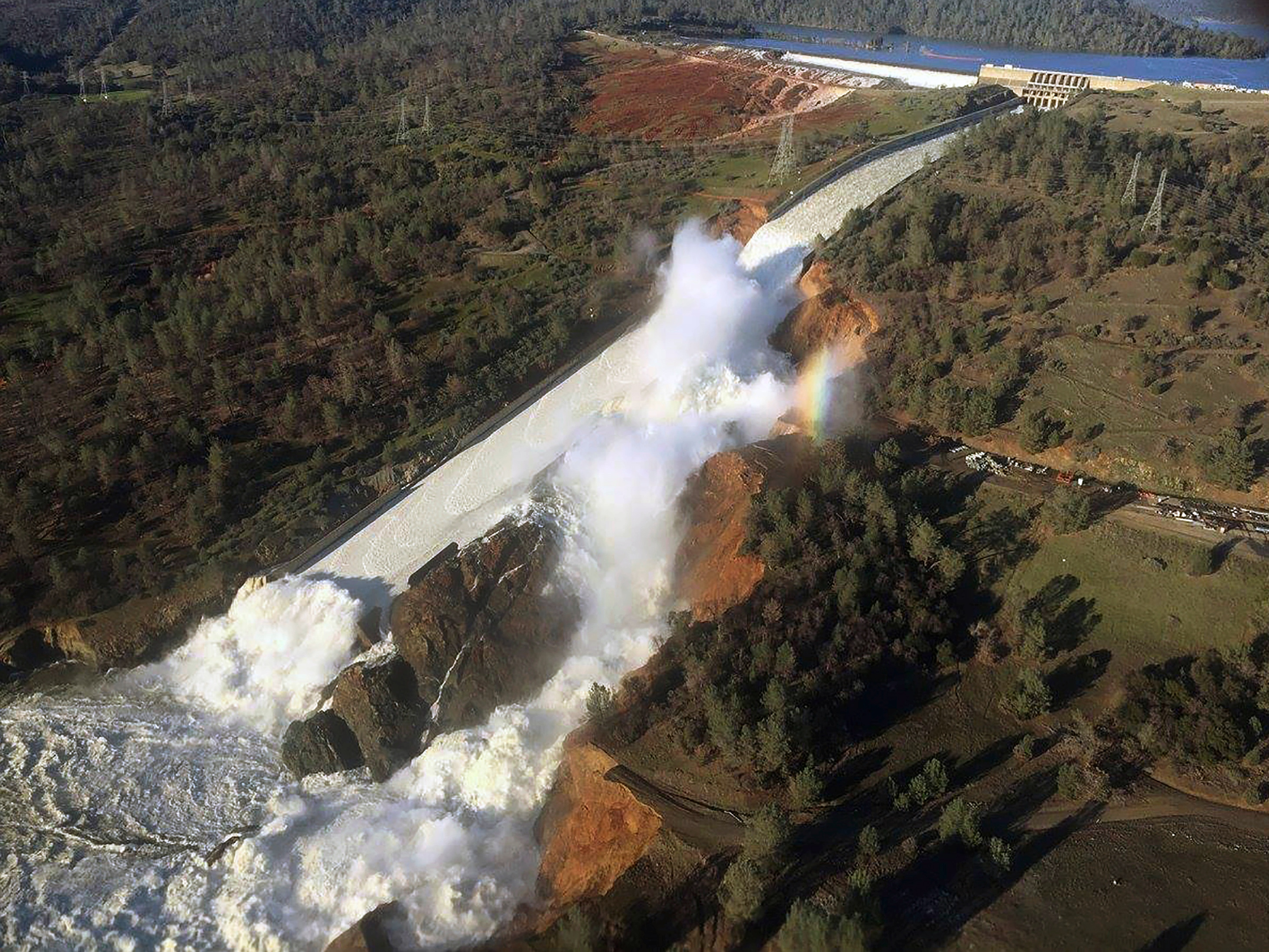 Water flowing from the eroded overflow spillway of Oroville Dam, CA.